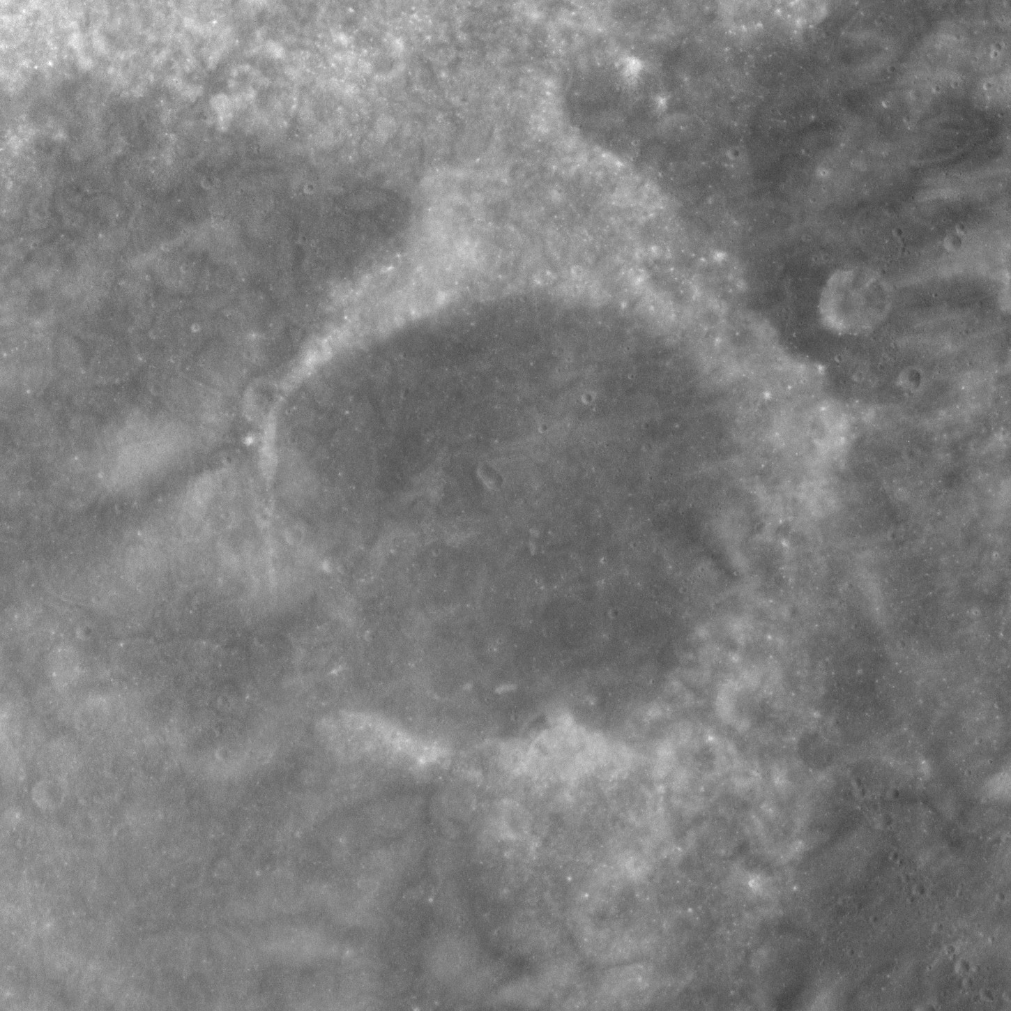 Goddard C crater (west of Goddard), on the moon. Camera altitude 169 km, sun elevation 55 deg.